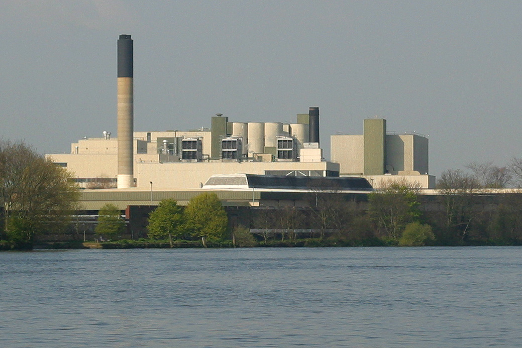 Stag Brewery, Mortlake. Category:Images of the Boat Race